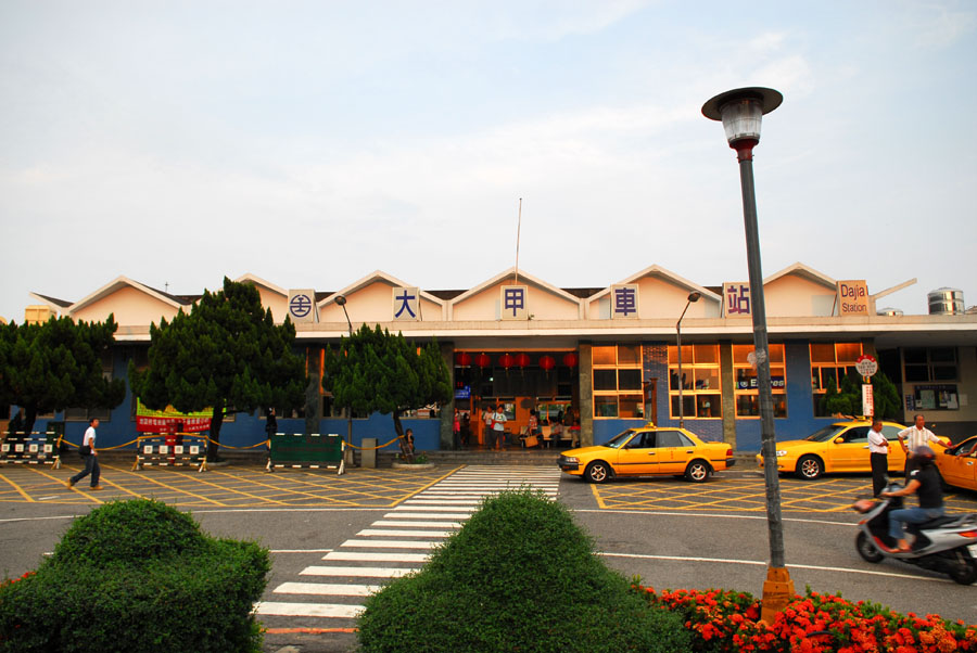 RihNan Station is a local train station of Taiwan's Western main rail line. It's the main station of DaJia Town, TaiChung County.